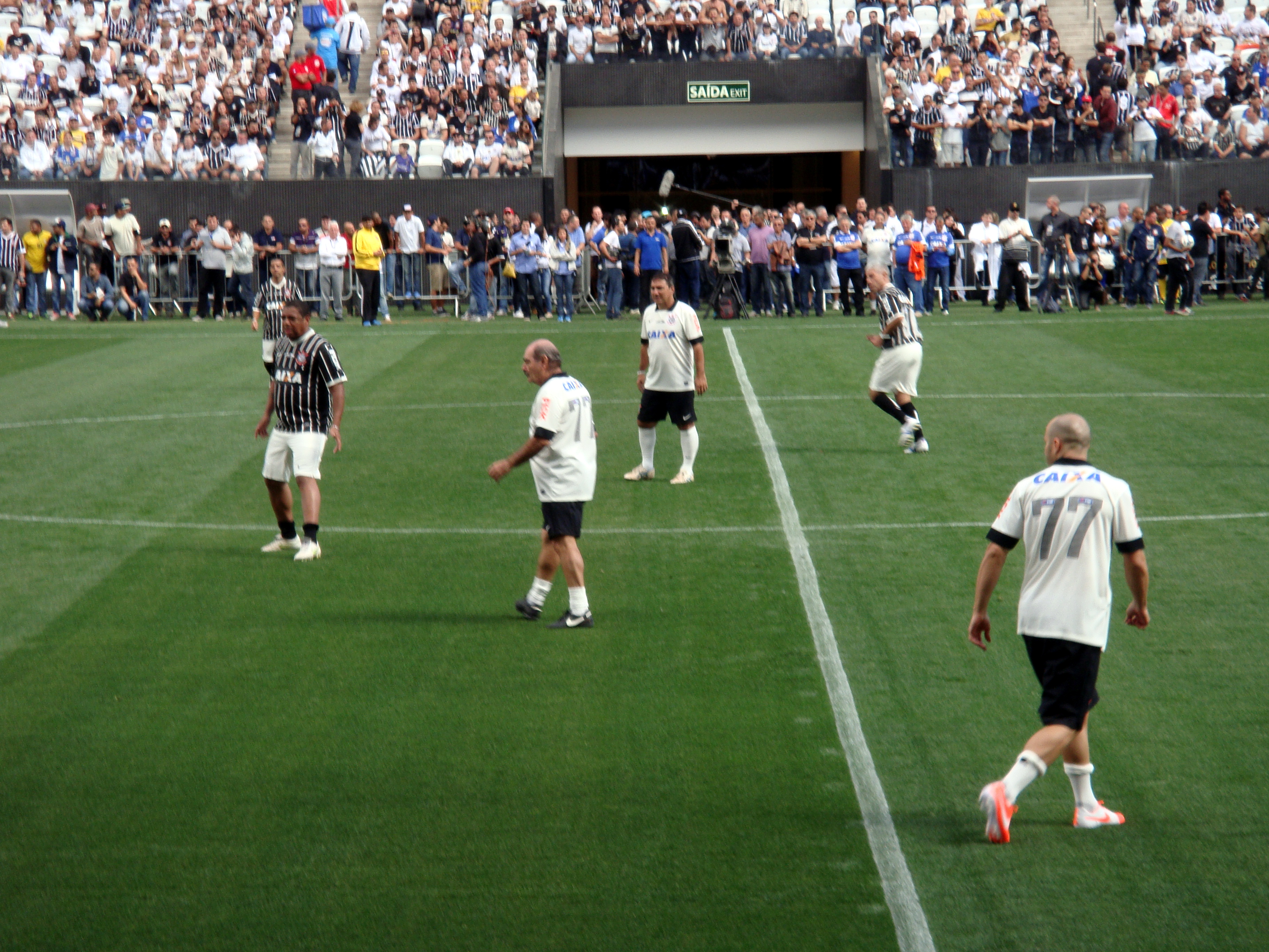 Rivelino, between Vampeta and Alessandro at Arena Corinthians